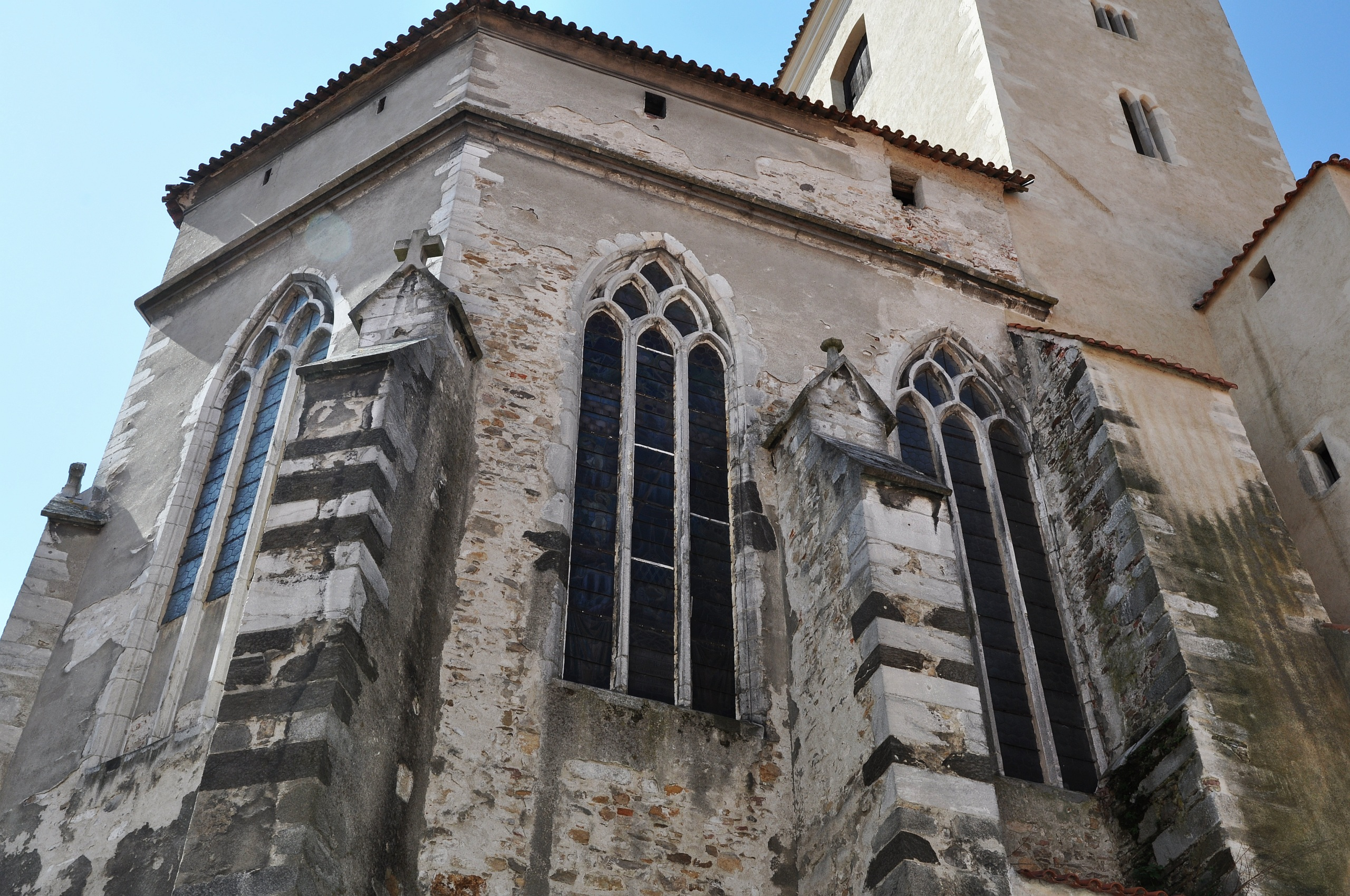 Choir.